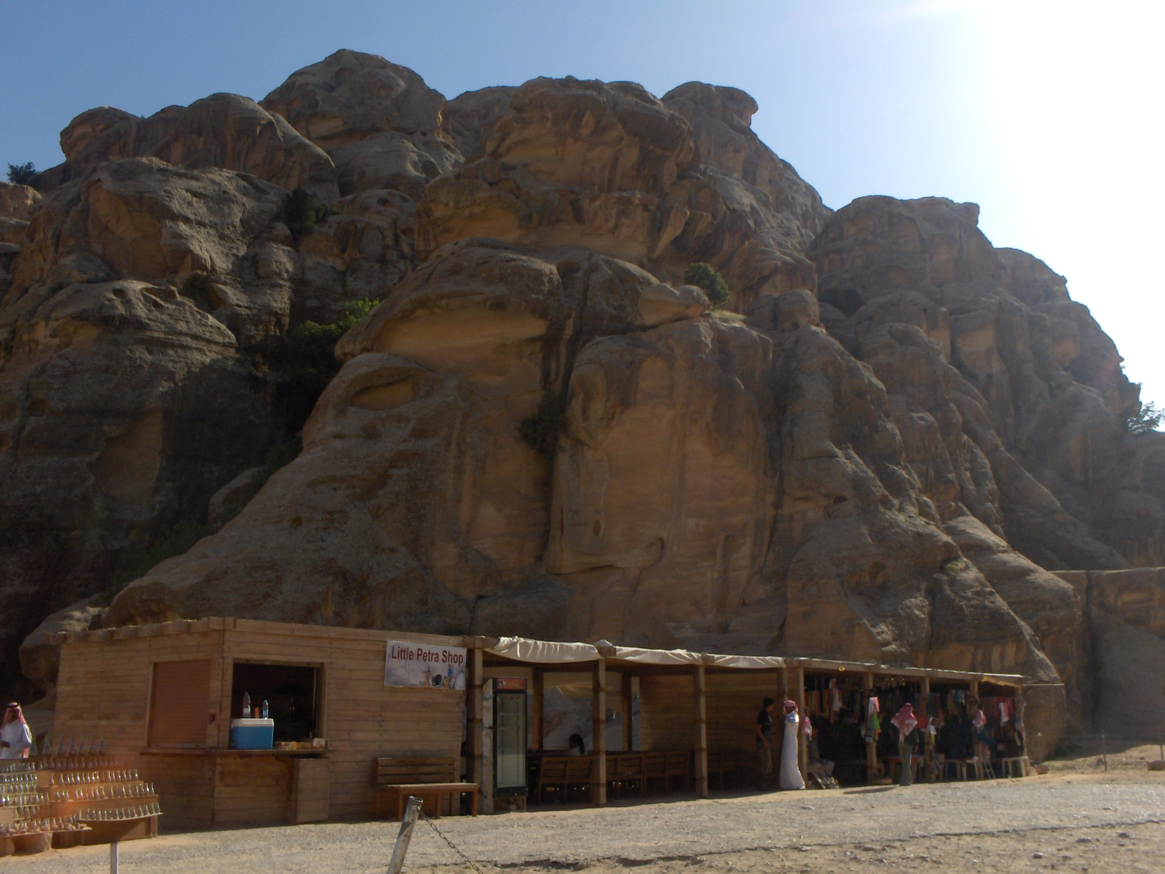 Little_Petra_Shop